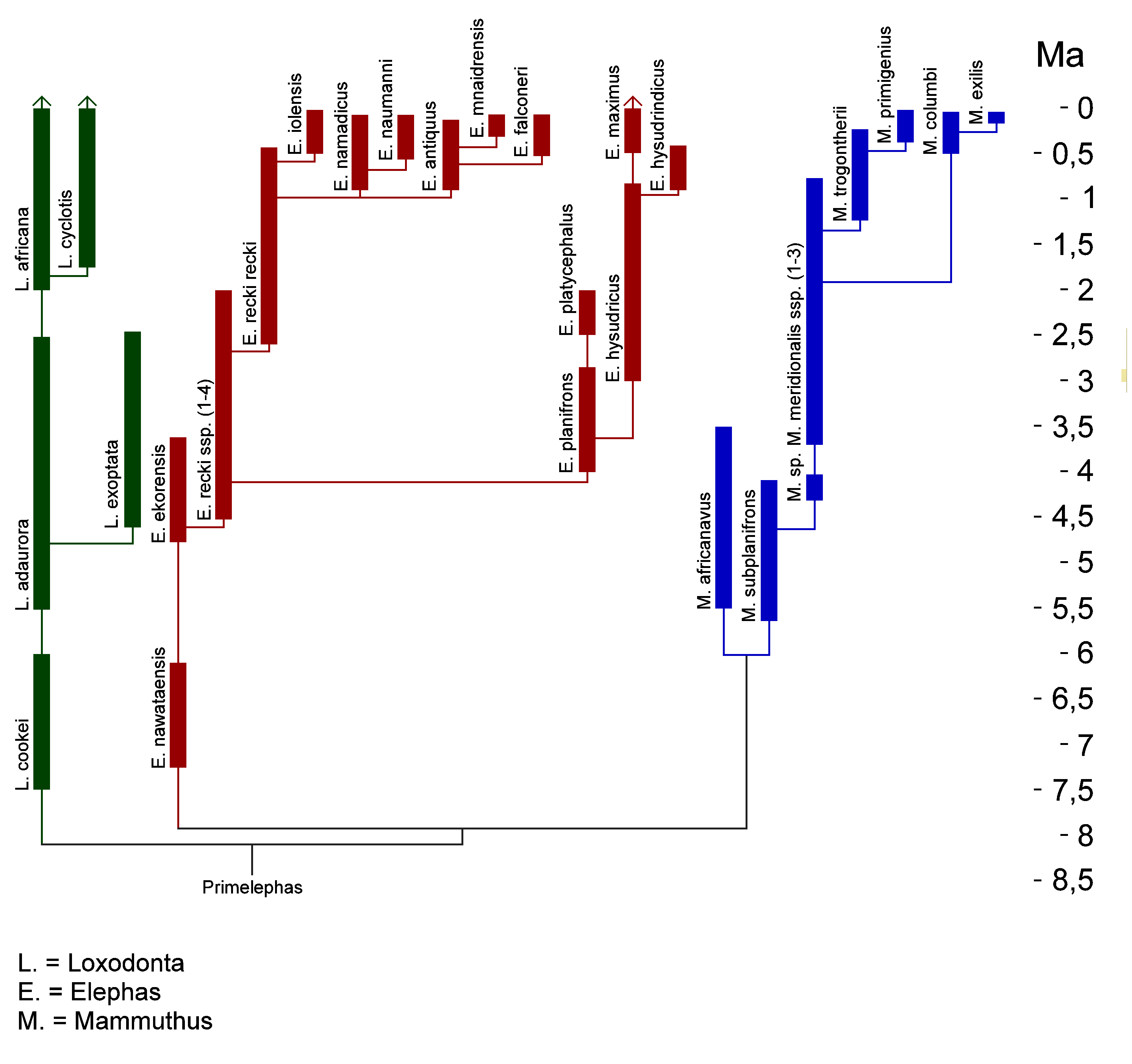 evolution of the elephants